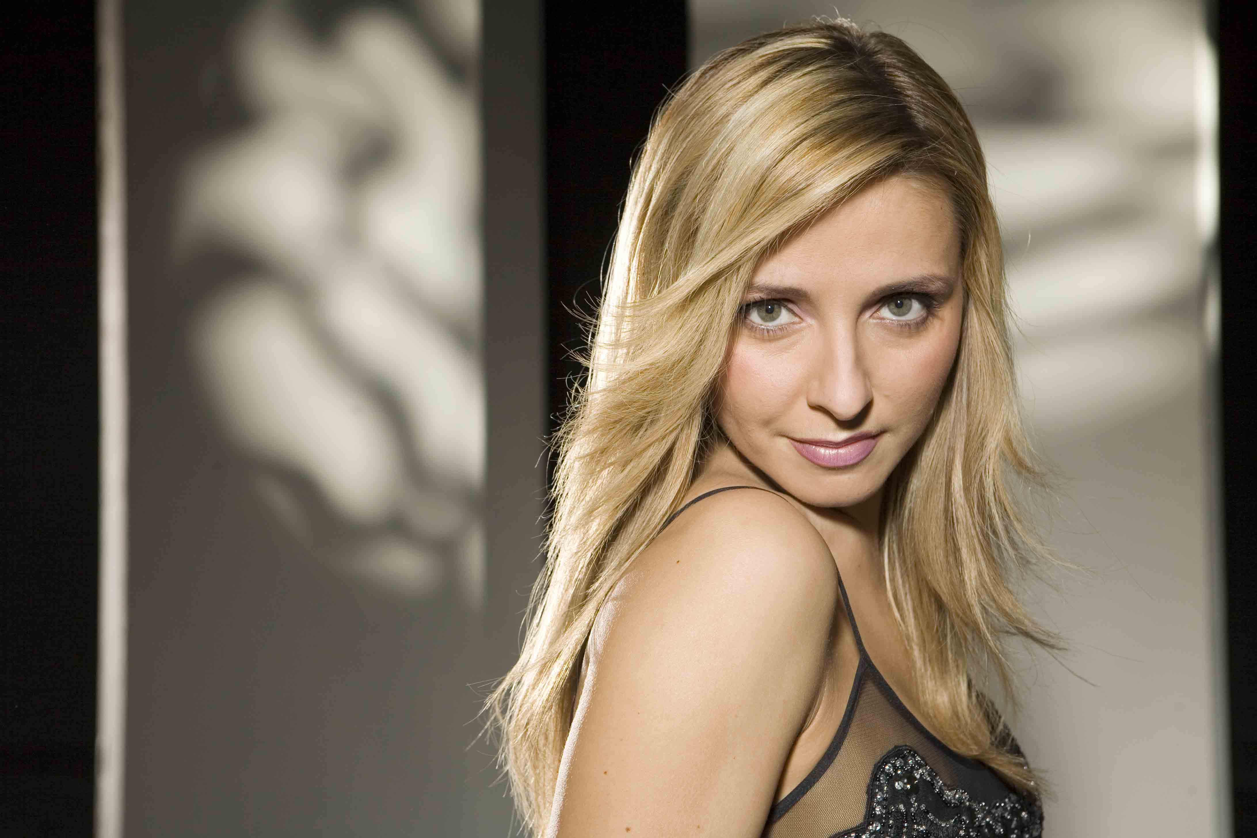 Navka Tatiana, russian ice dancer